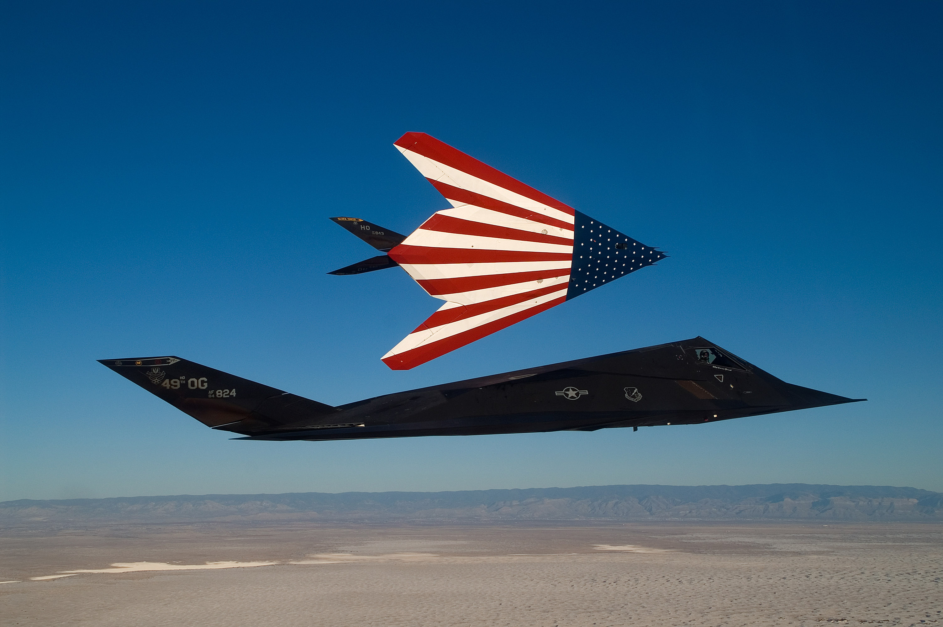 A pair of specially painted F-117 Nighthawks fly off from their last refueling by the Ohio National Guard's 121st Air Refueling Wing. The F-117s were retired March 11 in a farewell ceremony at Wright-Patterson Air Force Base, Ohio.